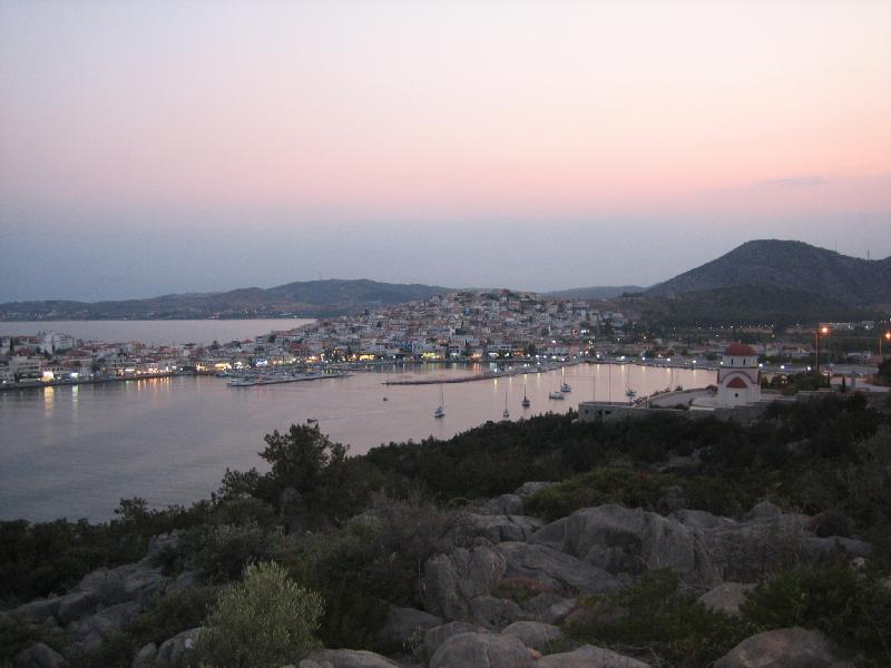 Ermioni (GR).